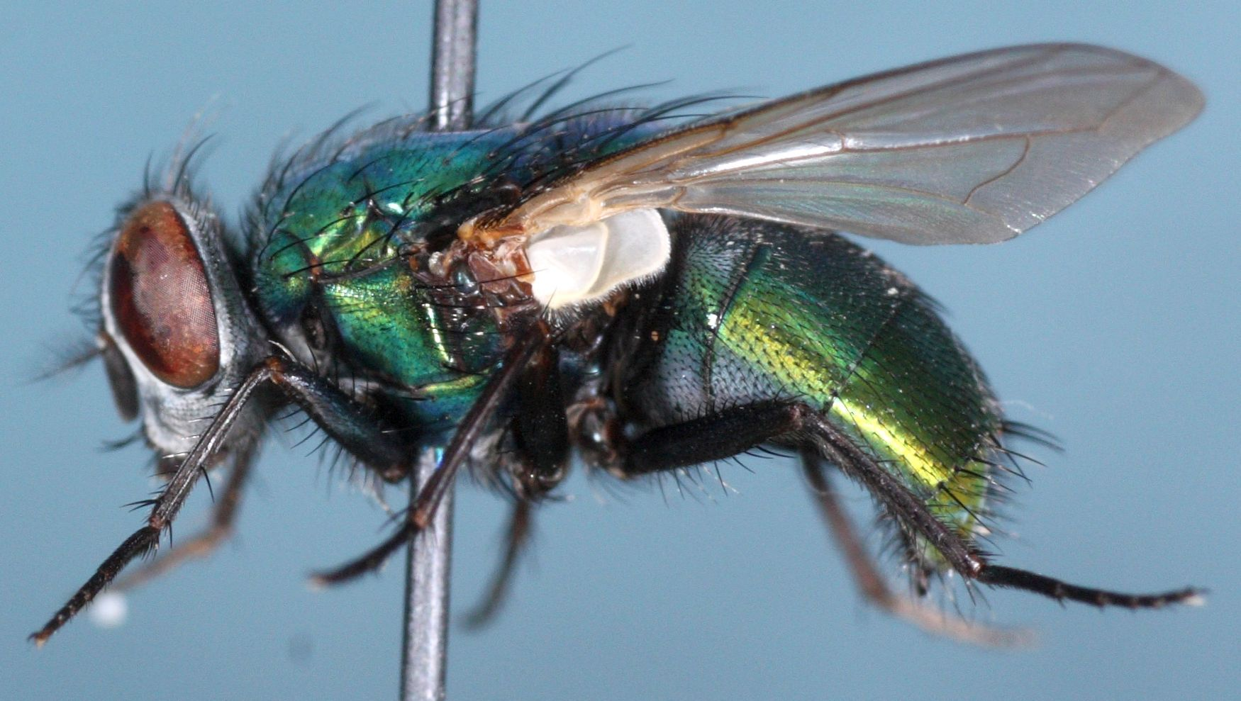 Female Lucilia sericata